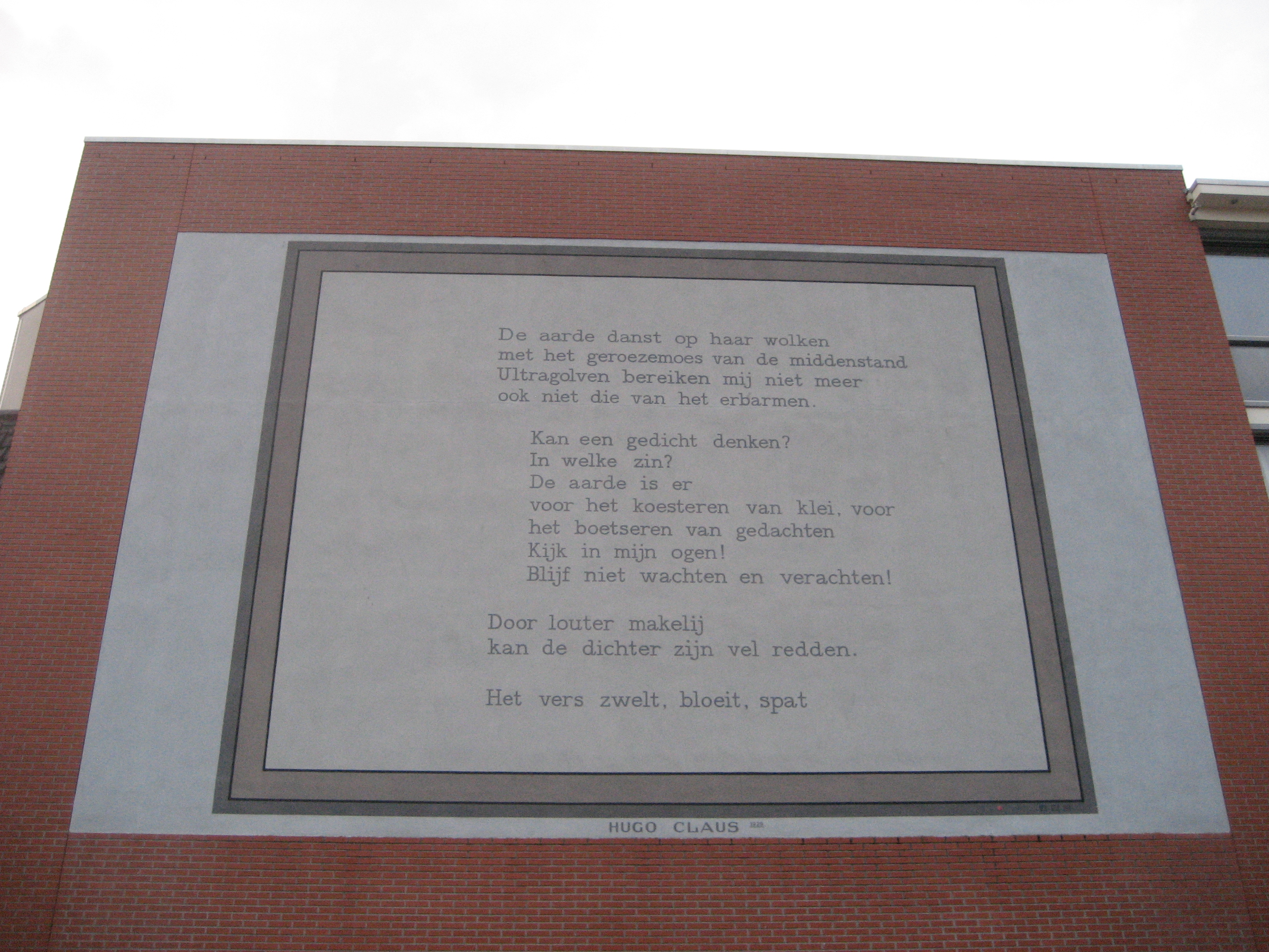 "De aarde danst op haar wolken" by the Flemish author Hugo Claus as wall poem in Leiden. Place: Geregracht 1, at the corner with the Levendaal in Leiden (The Netherlands)